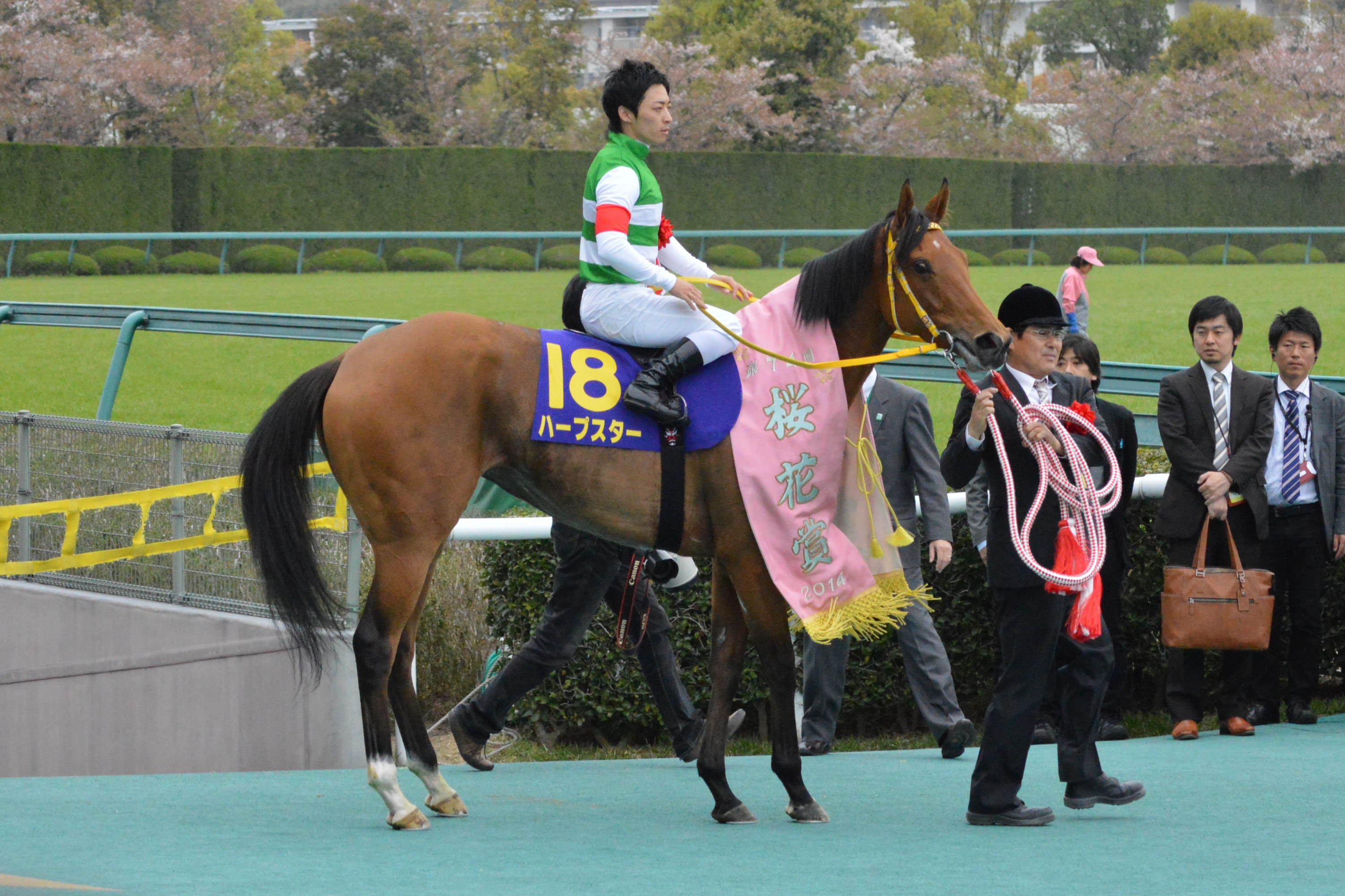 Japanese race horse Harp Star at Hanshin racecourse. Hanshin (JPN) 13 Apr 2014 Ouka Sho (Japanese 1000 Guineas) (Grade 1) (3yo Fillies) (Turf) 1m Firm RankHorse NameOddsAgeWgtTrainerJockey1stHarp Star (JPN)1/5FF38-9Hiroyoshi MatsudaYuga Kawada2ndRed Reveur (JPN)32/5F38-9Naosuke SugaiKeita Tosaki3rdNuovo Record (JPN)30/1F38-9Makoto SaitoYasunari Iwata4th - 18th/omission